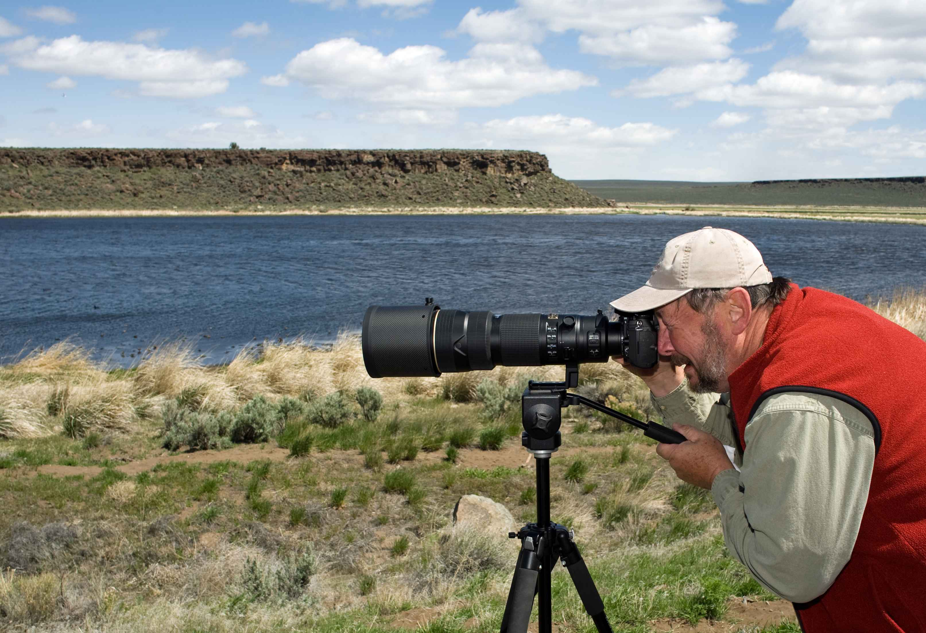 Image title: A professional photographer with photo camera records the images Image from Public domain images website